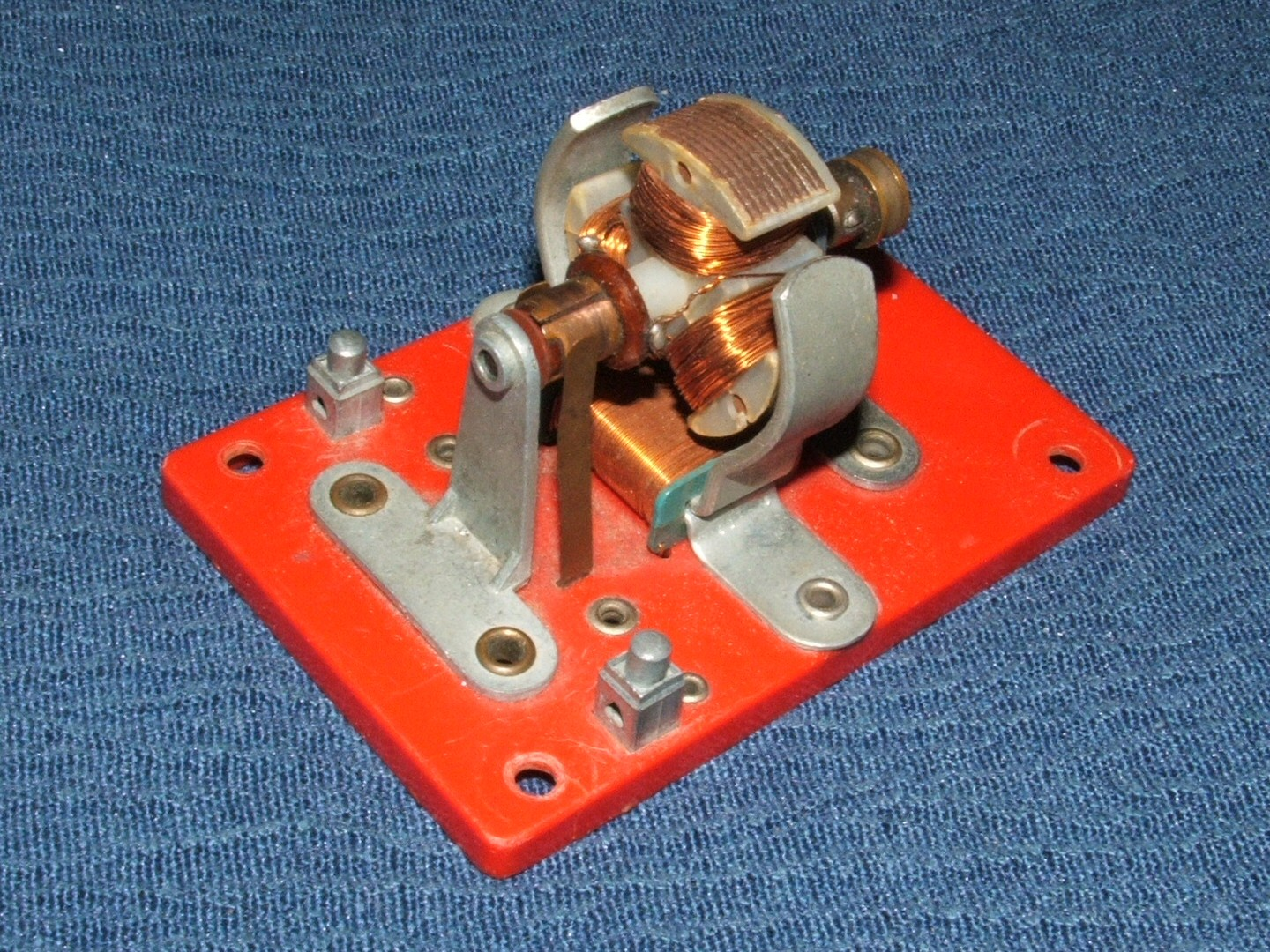 Eletric motor